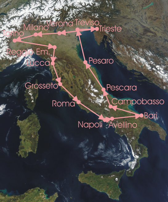 Map of Italy highlighting the stages of 1927 Giro d'Italia